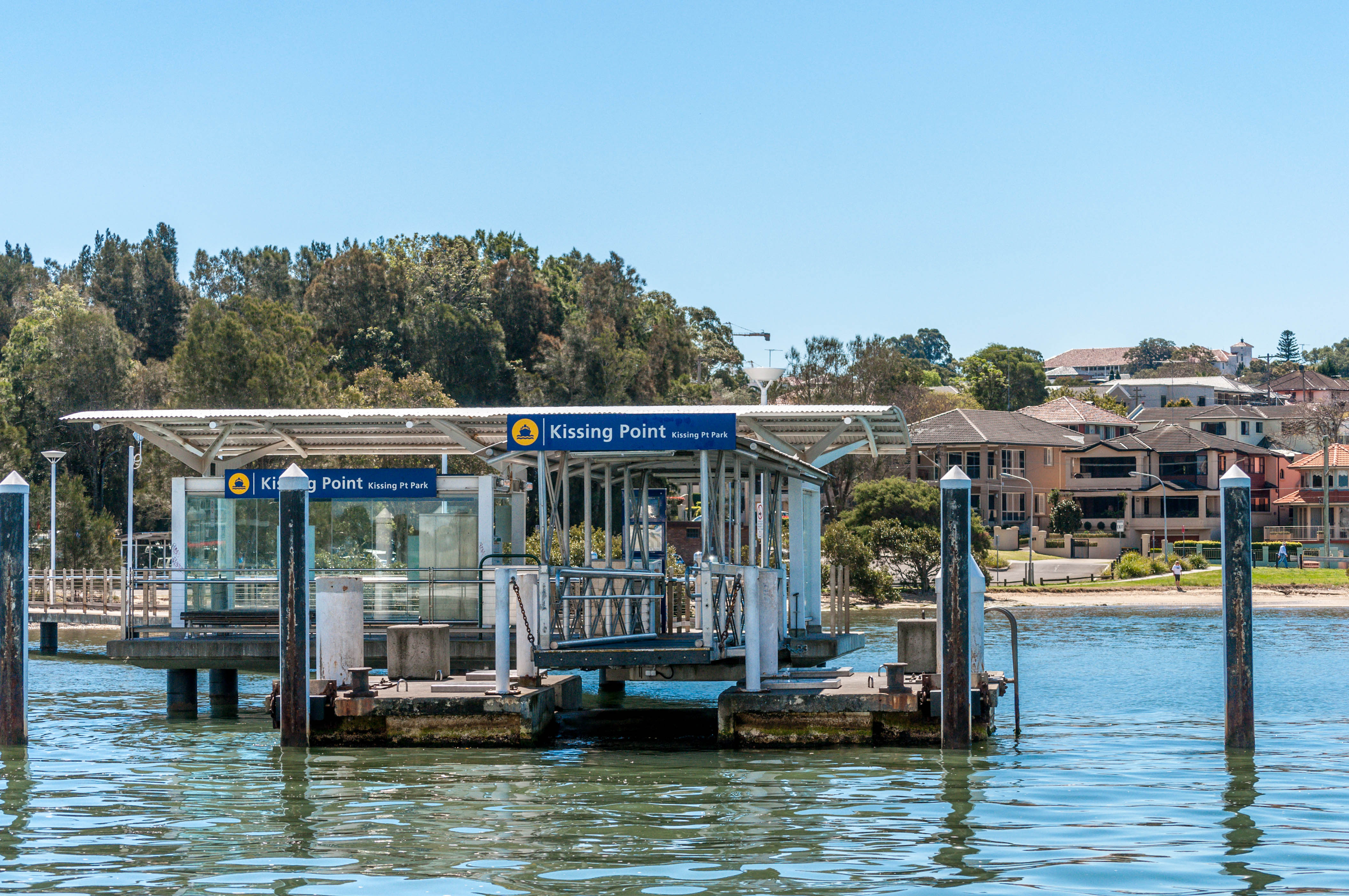 Kissing Point Wharf, New South Wales